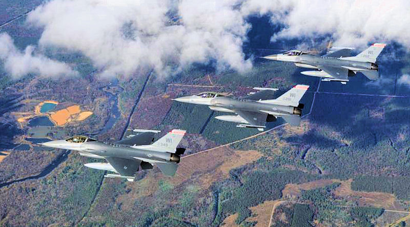 USAF F-16C block 30s #87-0349, #87-0261 & #87-0262 from the 176th FS on a routine training mission in the skies over Wisconsin on October 16th, 2008. [USAF photo by MSgt. Paul Gorman]